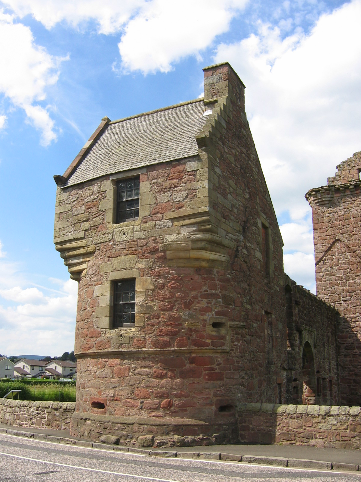 South-west tower, Burleigh Castle, Perth and Kinross, Scotland. Taken by User:Supergolden on July 14, 2006.